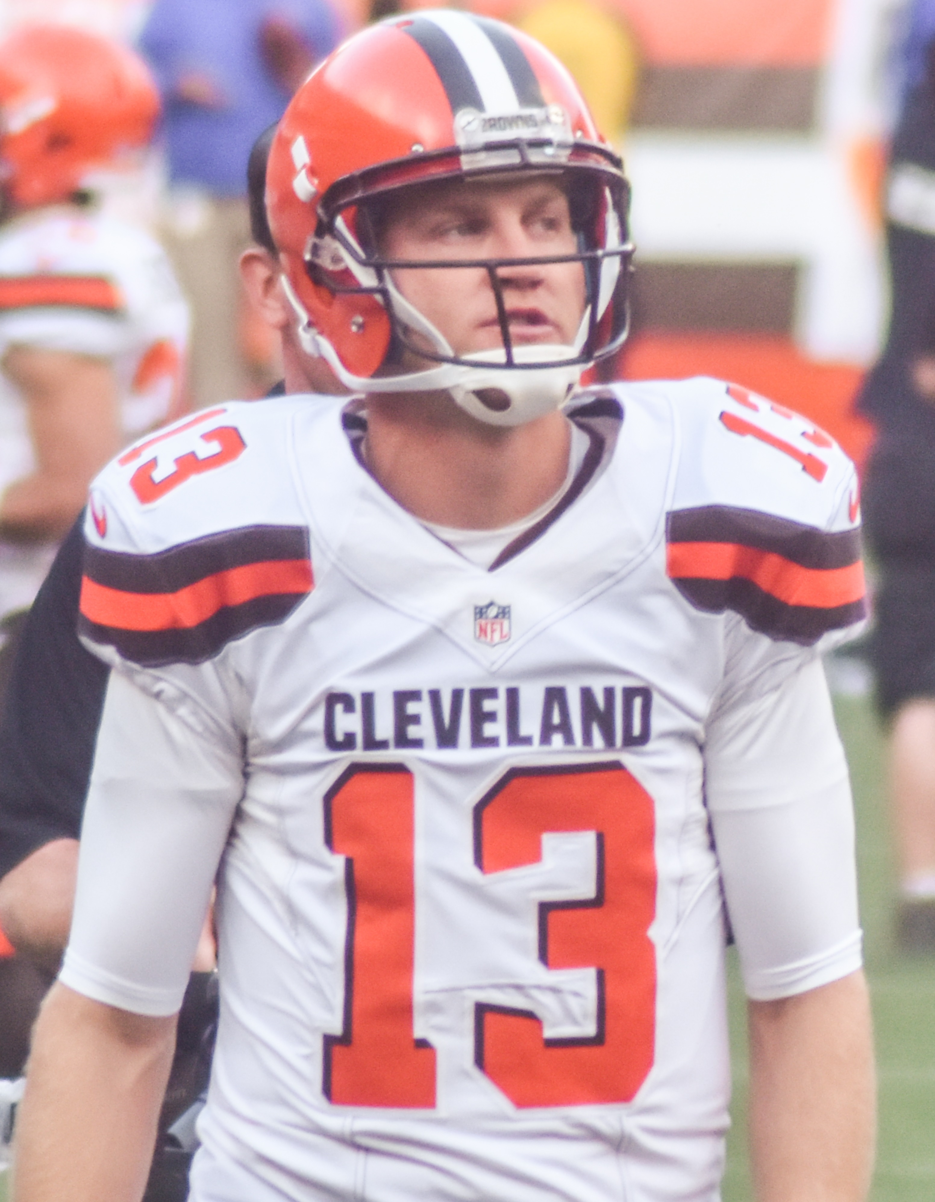 Browns vs Bills